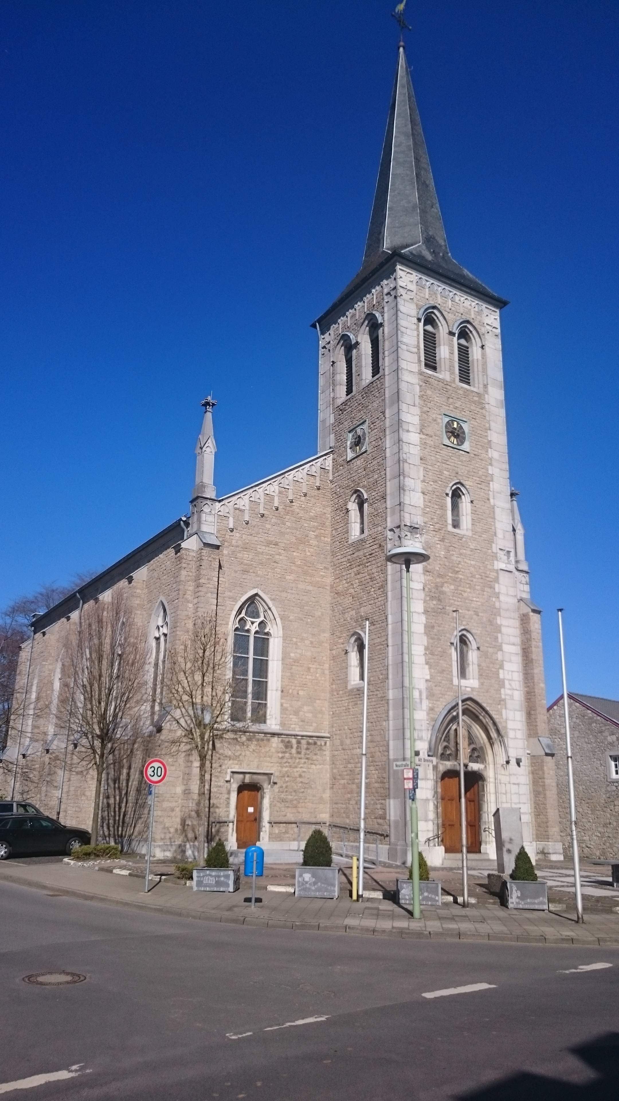 Cultural heritage monument in Stolberg Rhineland